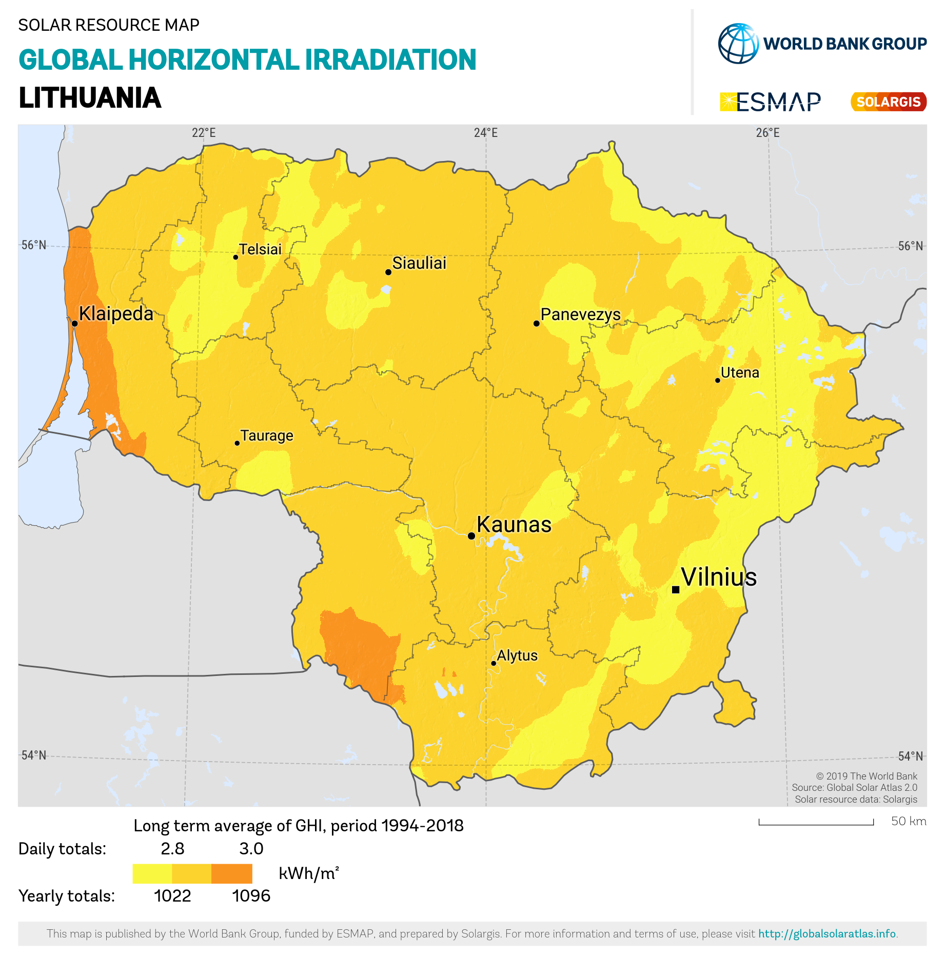 Global Horizontal Irradiation of Lithuania